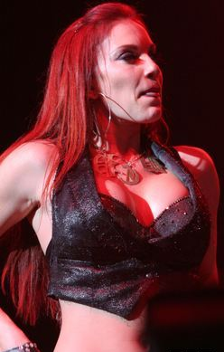 Carmit Bachar performed at Jingle Bell Bash 9 at the Tacoma Dome for KISS 106.1